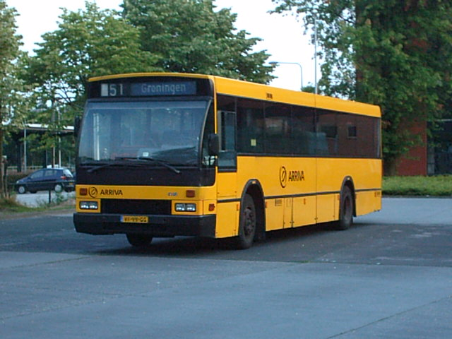 Bus. Assen, the Netherlands, July 2004.